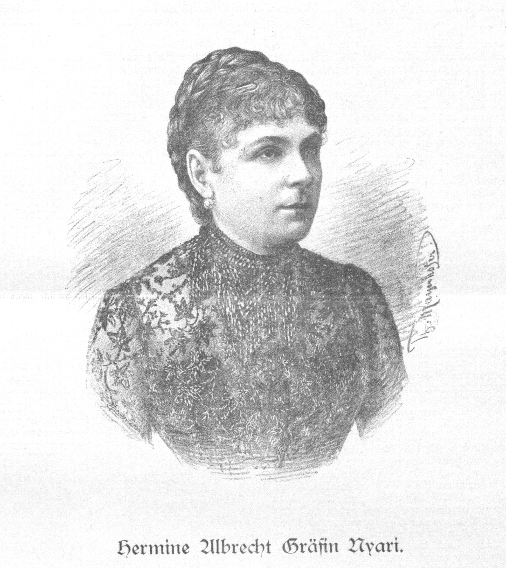 Portrait of Hermine Albrecht-Nyaryi (1856 or 1859 - 1929), Austrian actress.